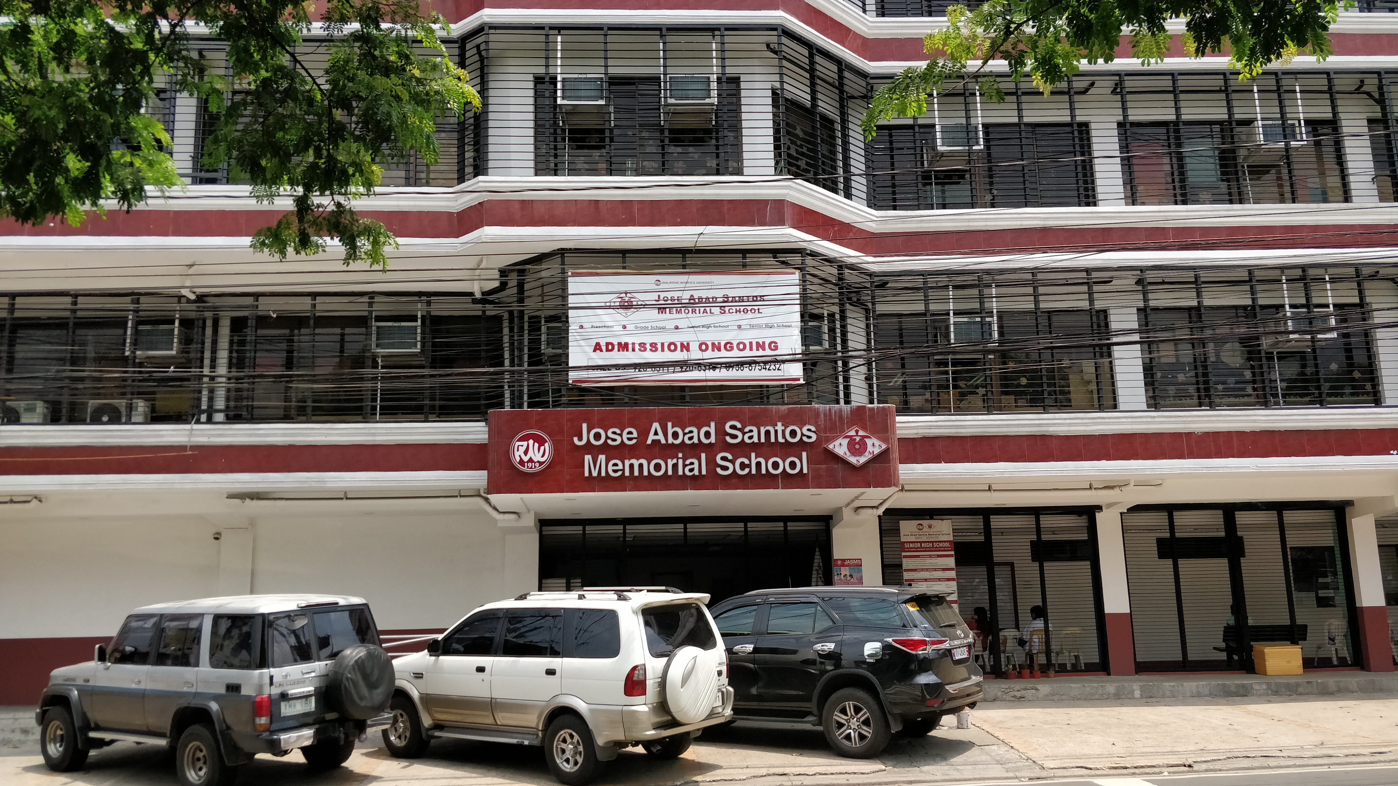 Jose Abad Santos Memorial School rented building at Congressional Avenue, Barangay Bahay Toro, Quezon City.